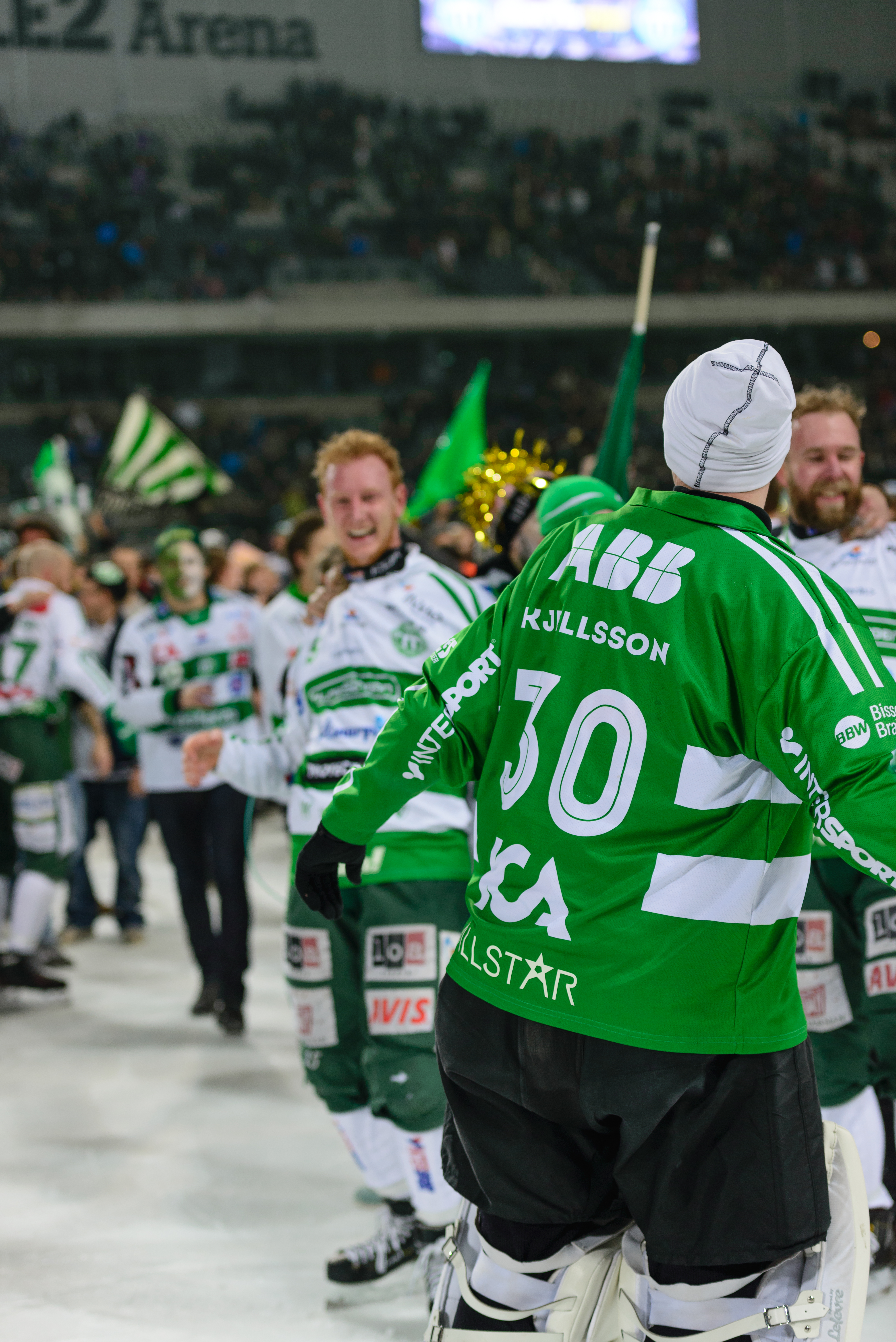 Swedish bandy championship final game of 2015, Sandvikens AIK (black)-Västerås SK (green/white) 4-6.